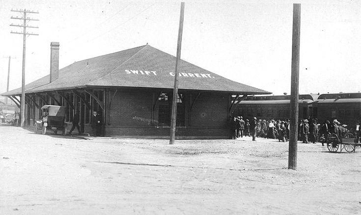 →This file has been extracted from another file: Swift Current railway station postcard.jpg Cropped, converted to greyscale and rotated by the uploader. Removed the words along the bottom of the postcard.